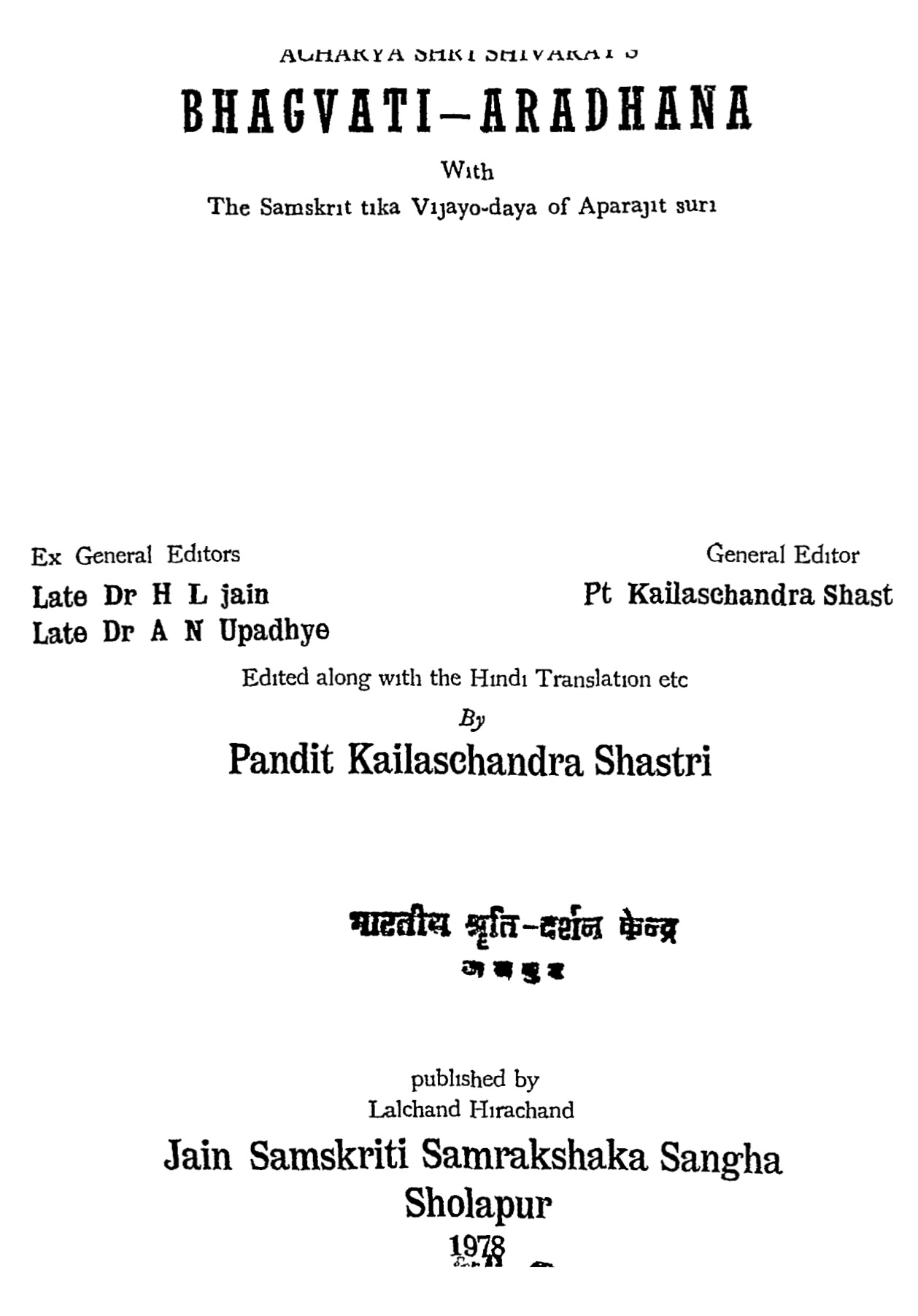 Bhagvati Aradhana of Acharya Shivarth with Sanskrit commentary Vijayo-daya of Aparajit suri The book is "non-copyright" and available in Public domain.